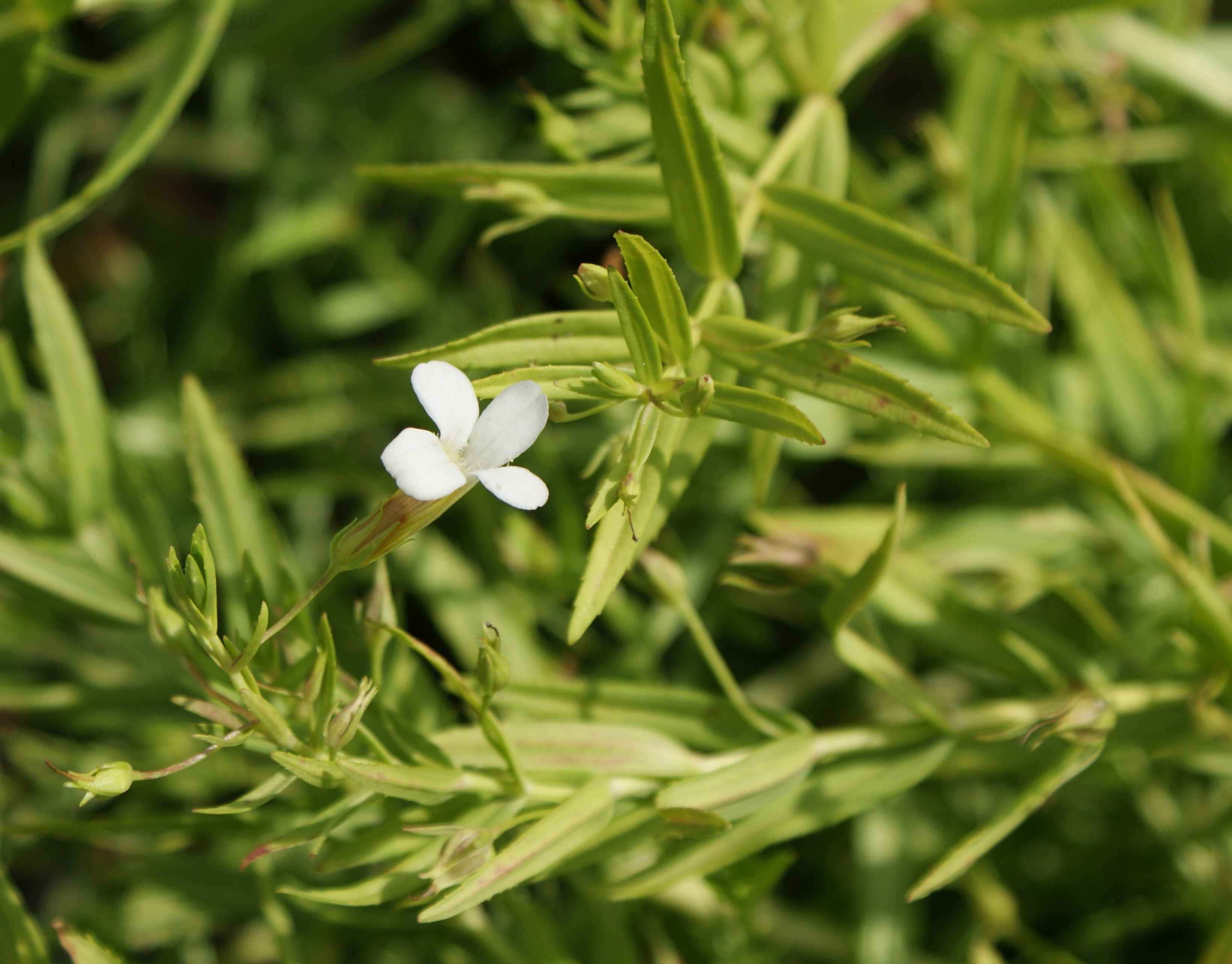 Gratiola officinalis, Botanical Garden in Wroclaw